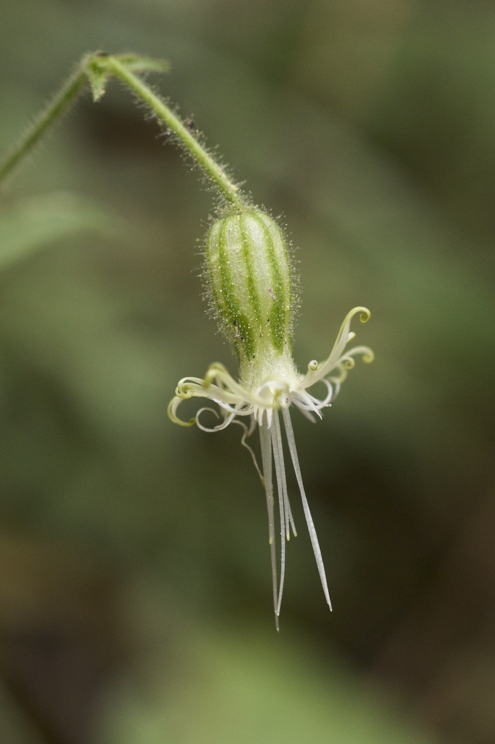 Silene lemmonii Common name: Lemmon's catchfly Photographed on the Wawona Meadow Trail, Yosemite National Park. Species native to California and Oregon.